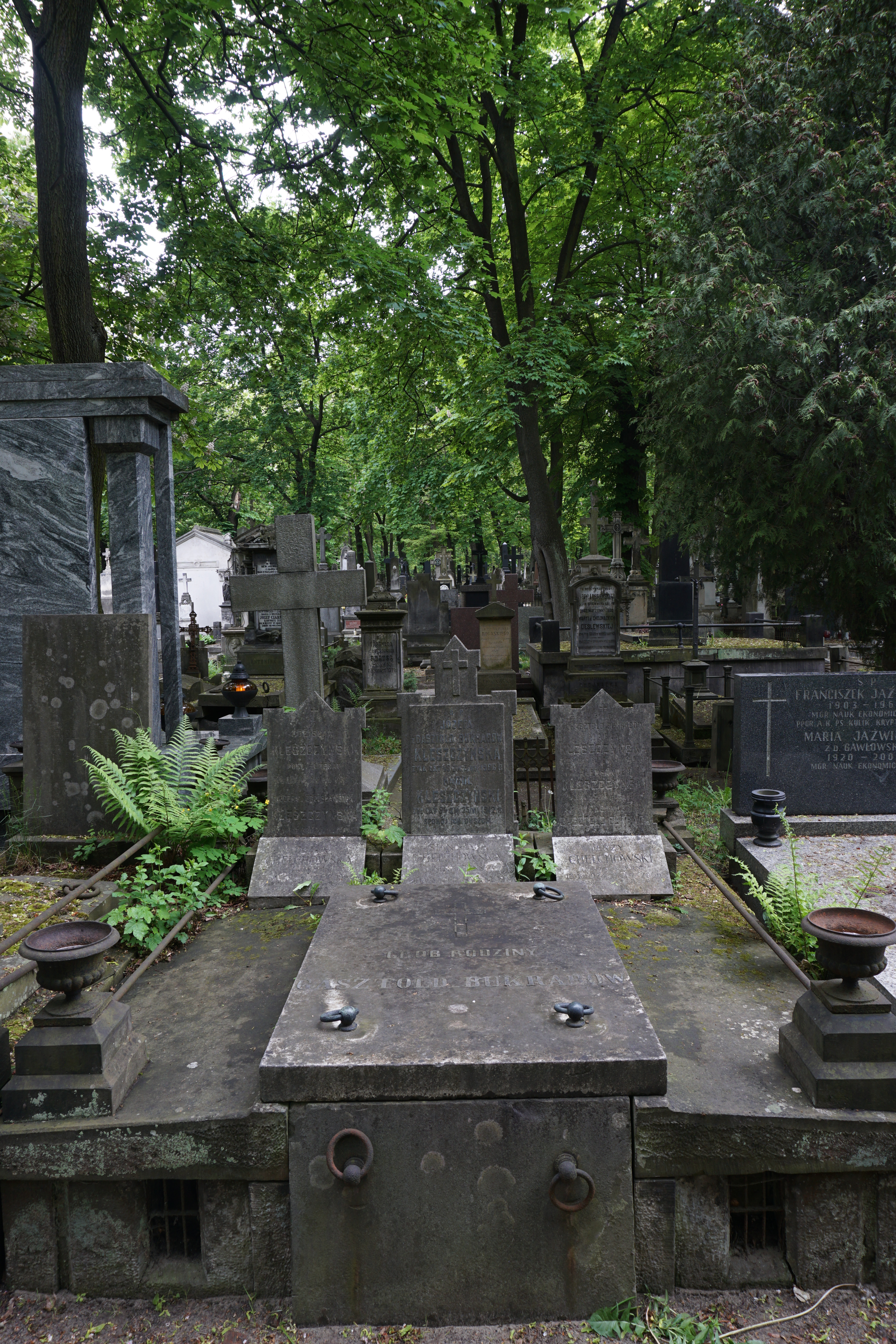 The grave of Zdzisław Kleszczyński at the Powązki Cemetery (section 22, row 3, grave 13, 14)